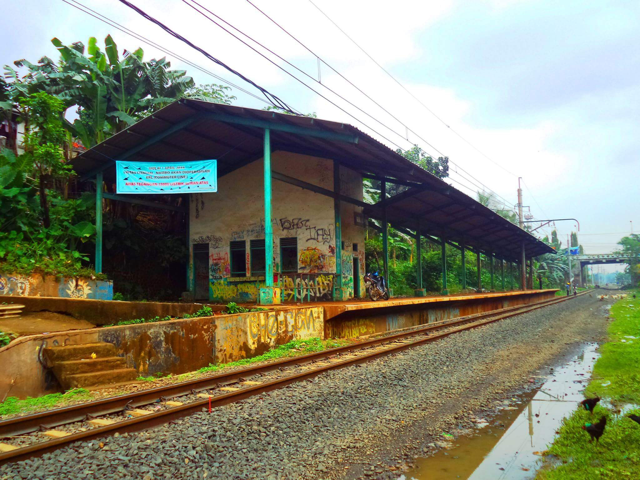 Gunung Putri Station is full of vandalism